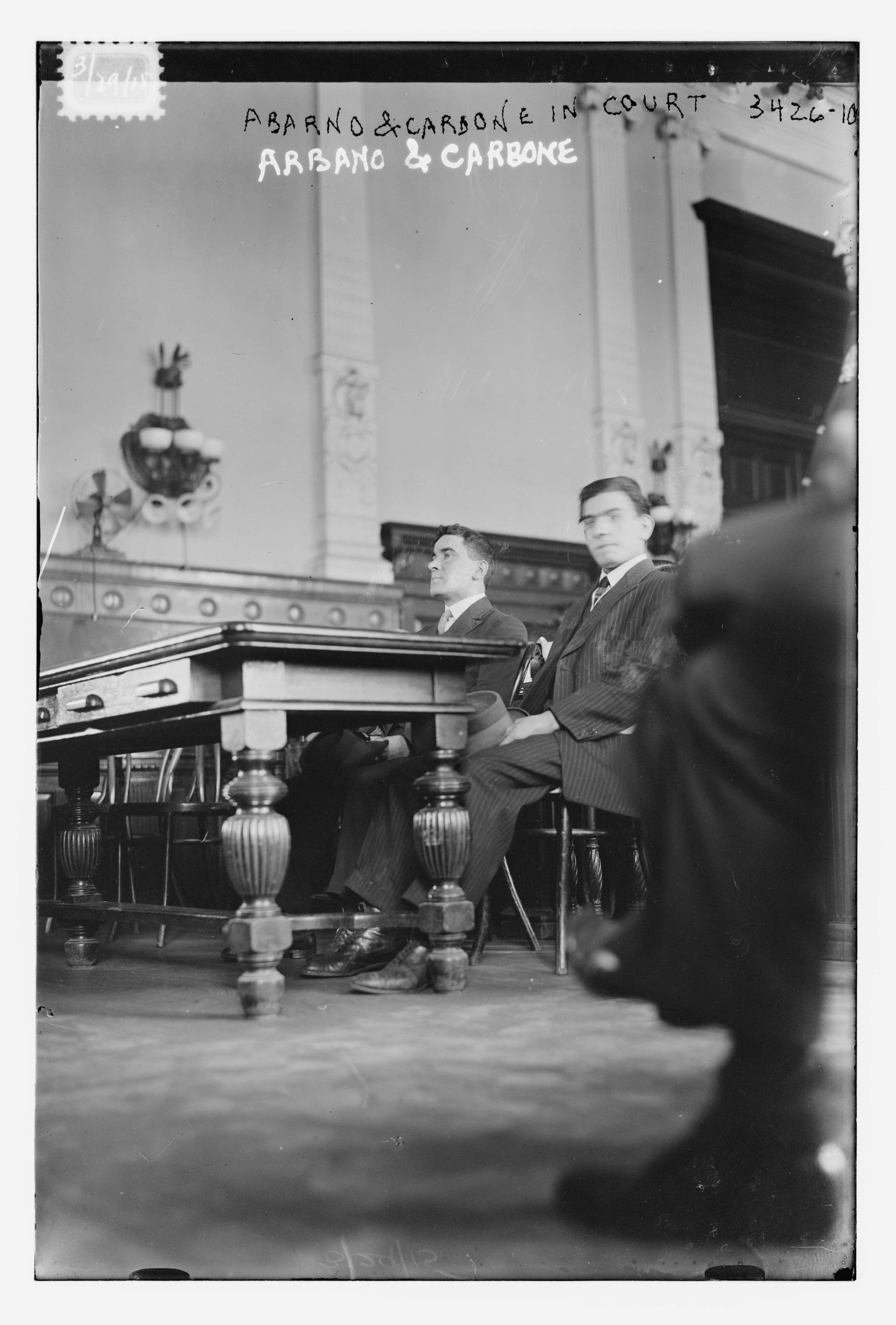 Title: Abarno and Carbone in court Abstract/medium: 1 negative : glass ; 5 x 7 in. or smaller.